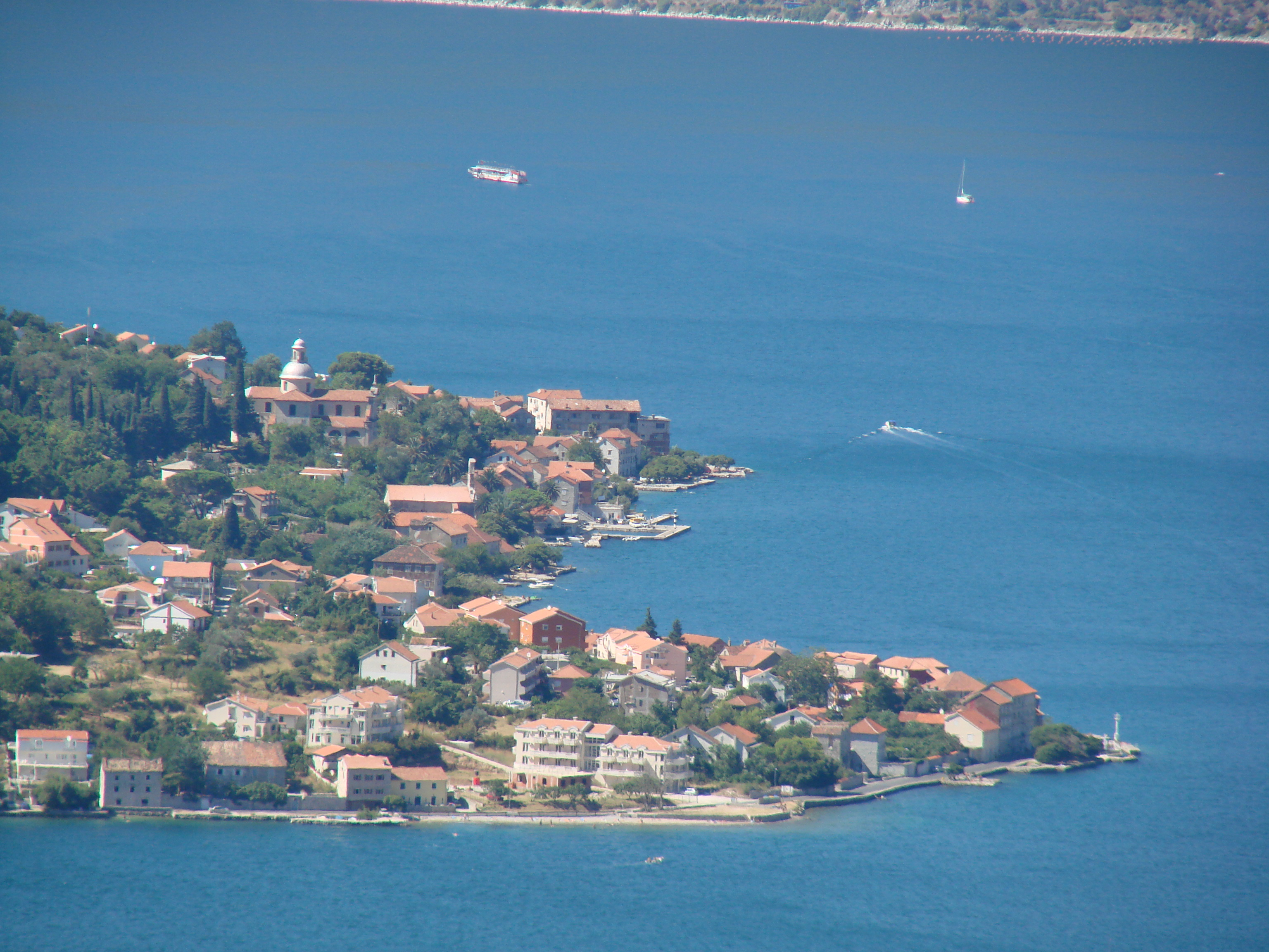 Prcanj Town Center